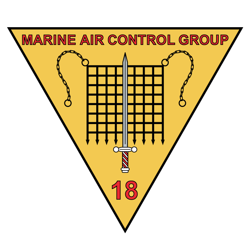 Unit insignia for MACG-18 based at MCAS Futenma, Okinawa, Japan.